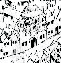 View of Thomas Cromwell's house at Austin Friars